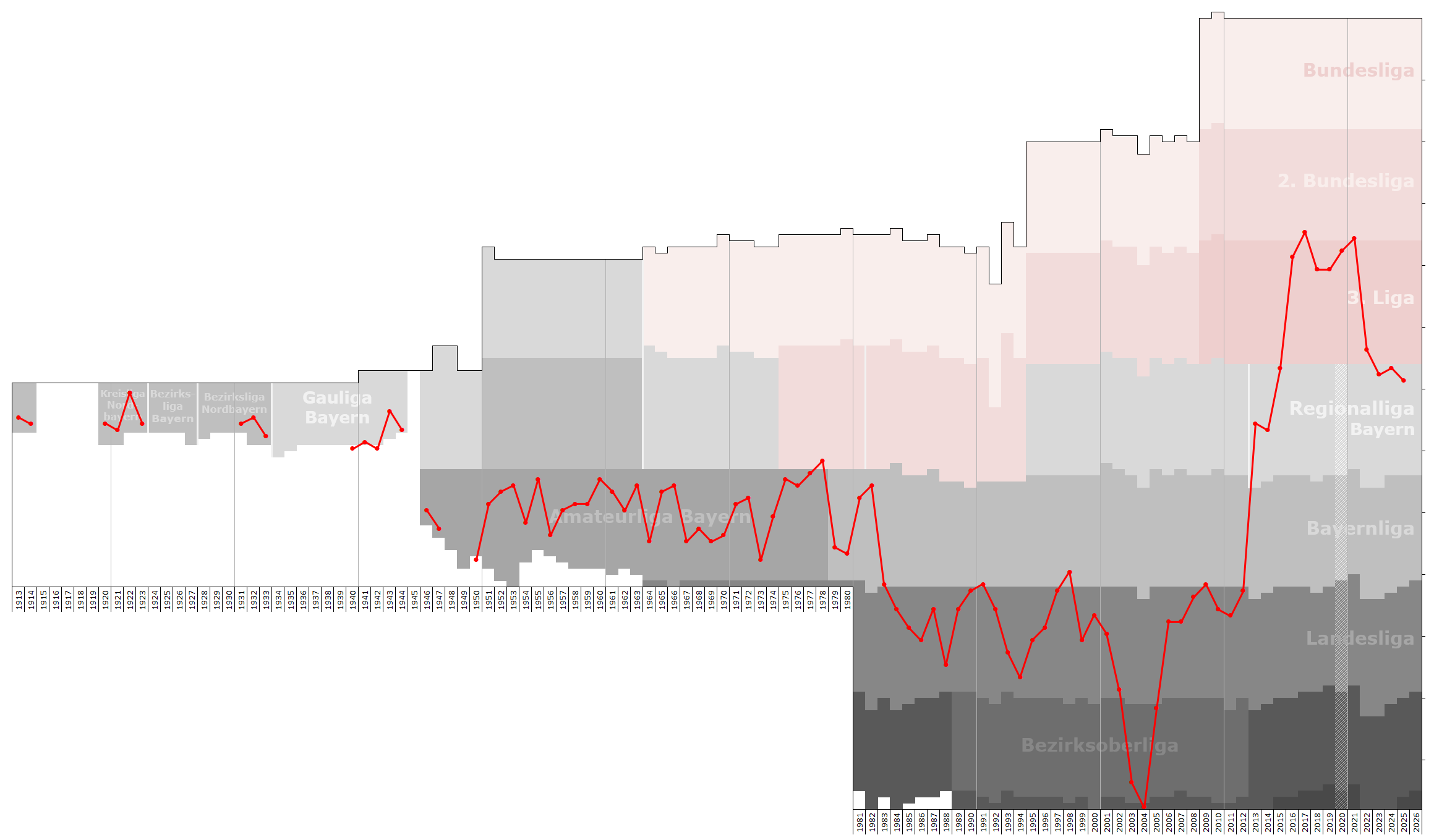 Chart of end-season table positions of Würzburger Kickers in the football league system of Germany. Data source: RSSSF, wikipedia, f-archiv.de, fussball.de